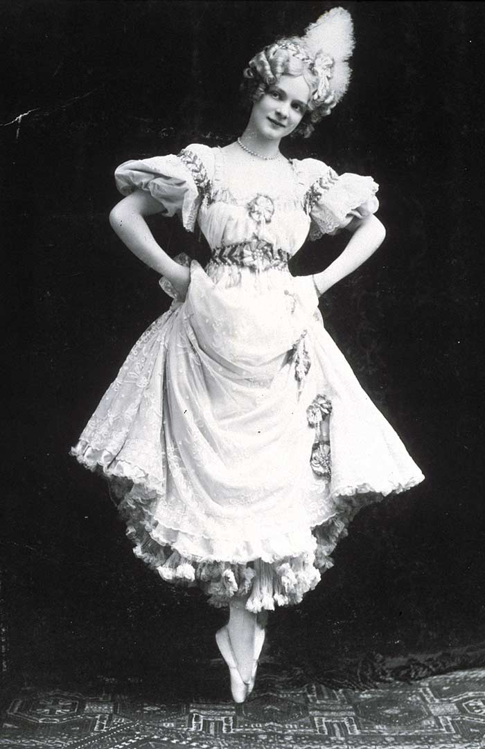 Adeline Genee in "The Little Michus", London.